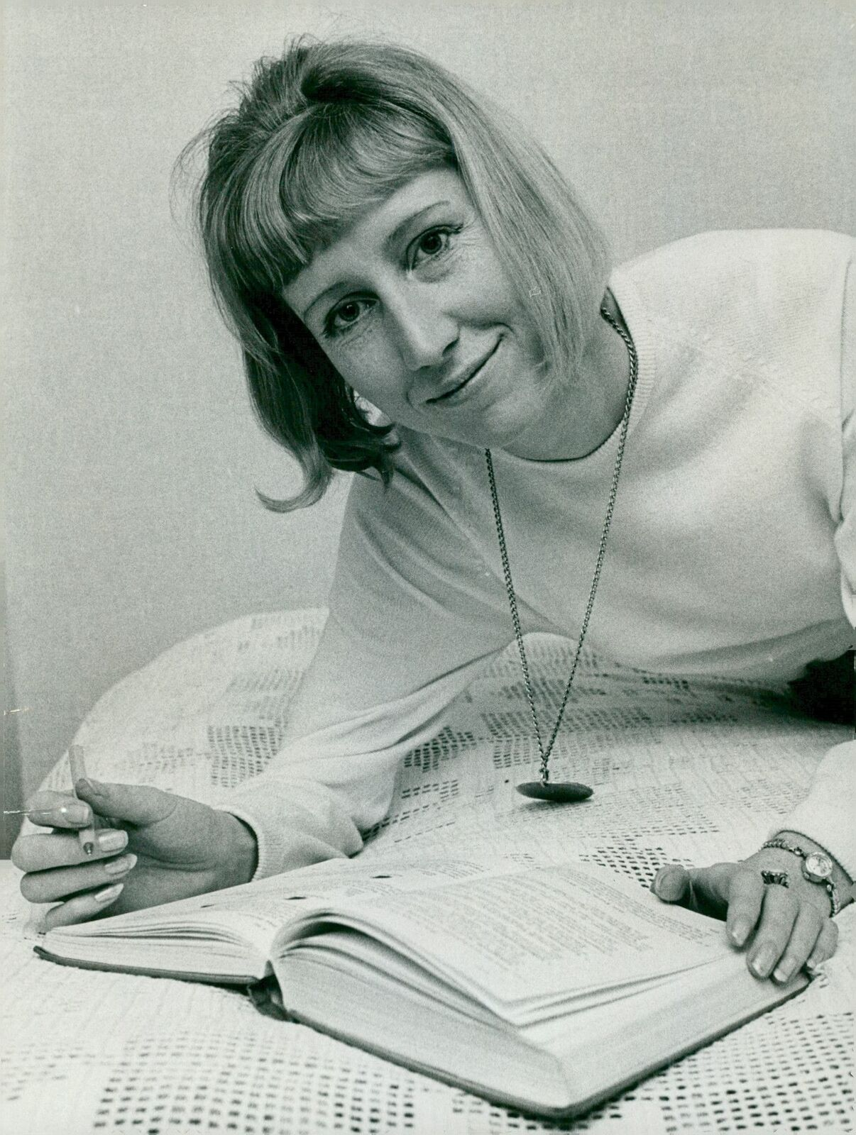 Ing-Marie Eriksson at her break through in 1965.